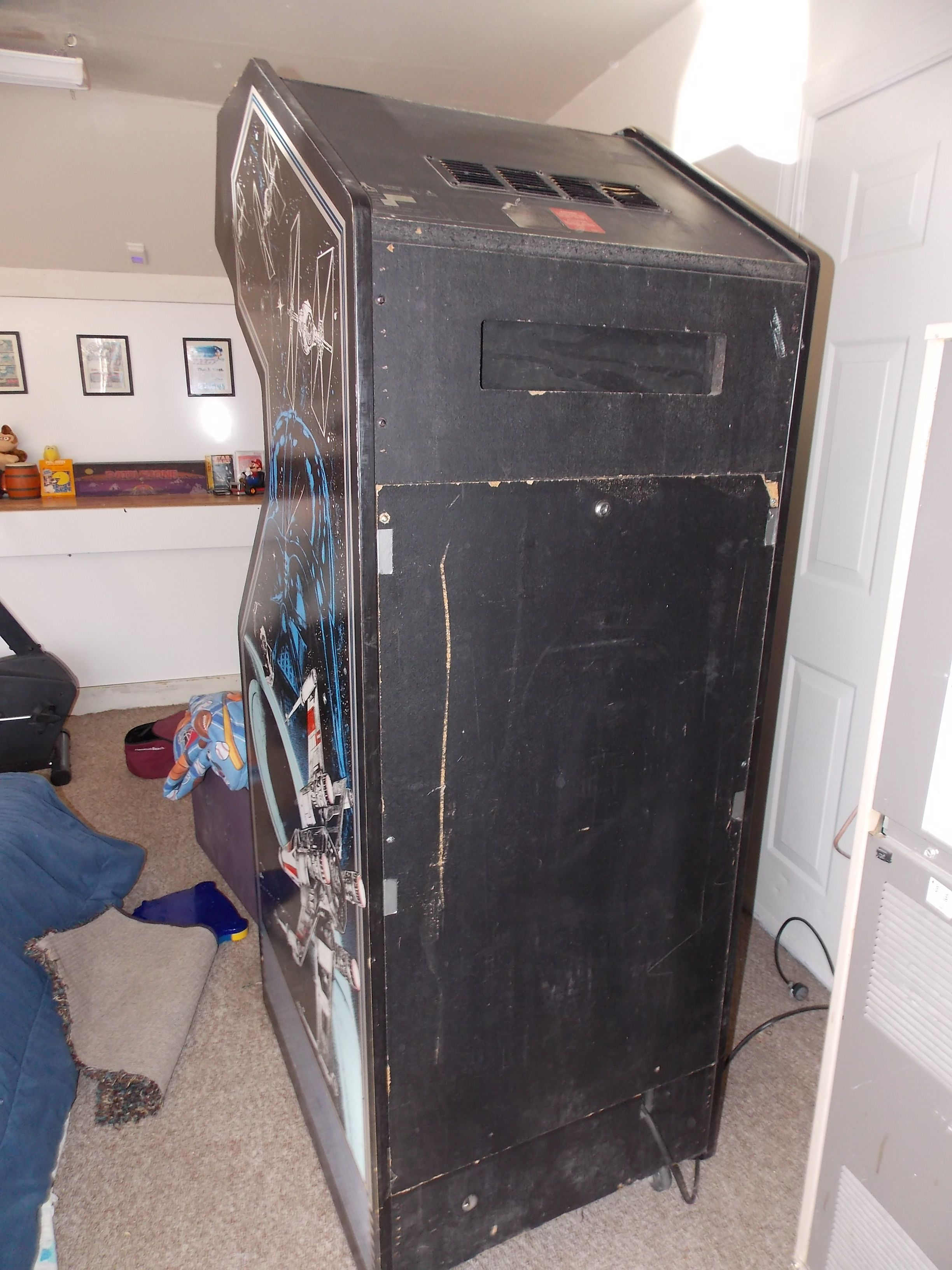 Star Wars - 1983 arcade game back